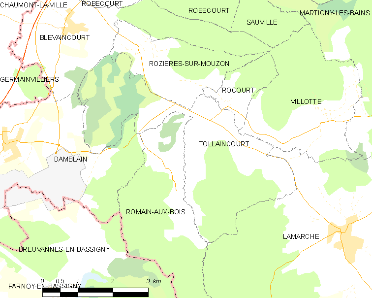 Map of French municipality Tollaincourt